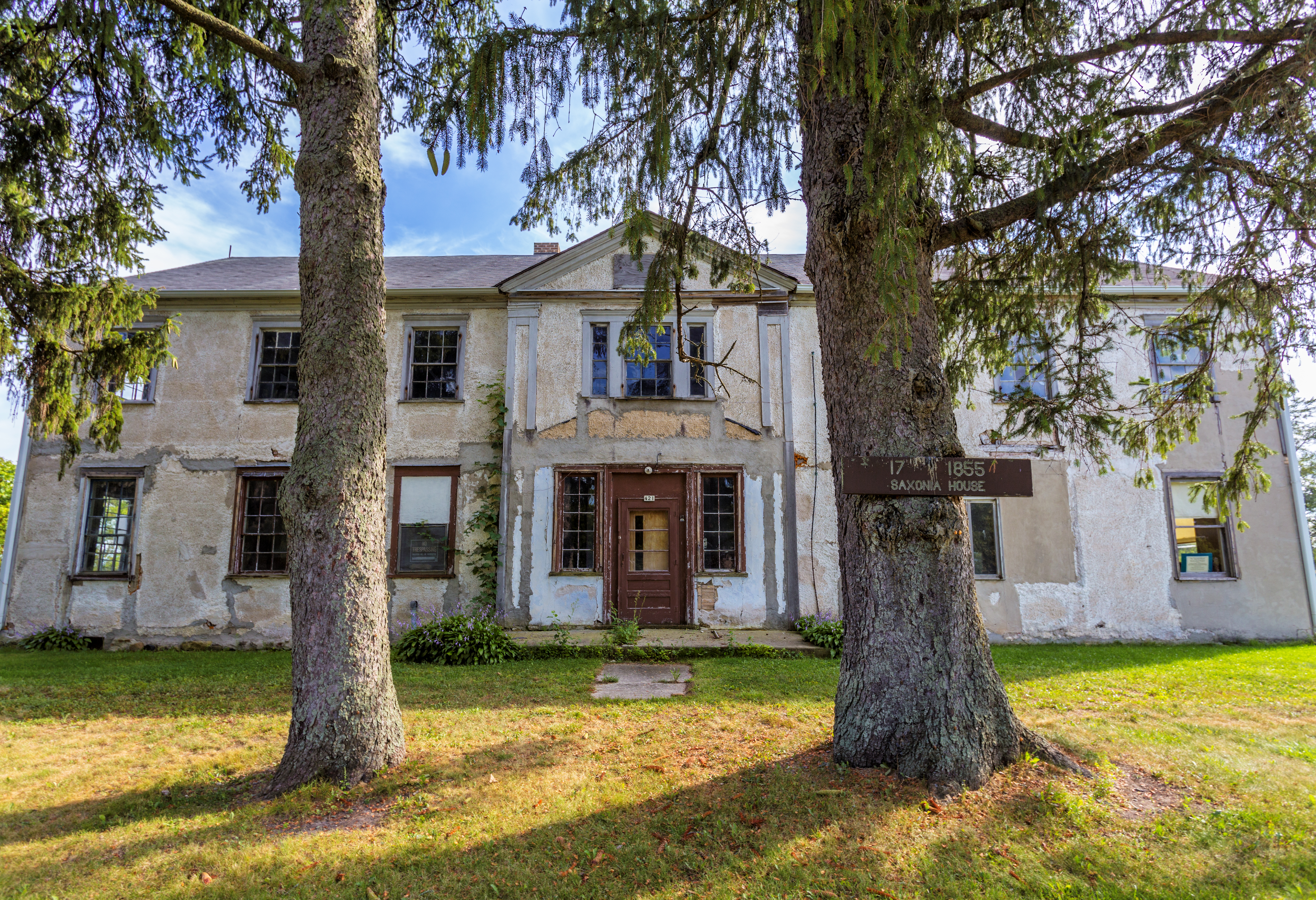 Saxonia House, 421 WI H Farmington